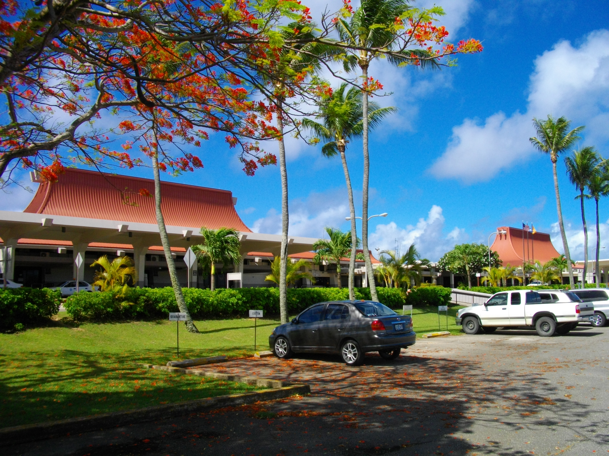 Saipan International Airport Terminal Building